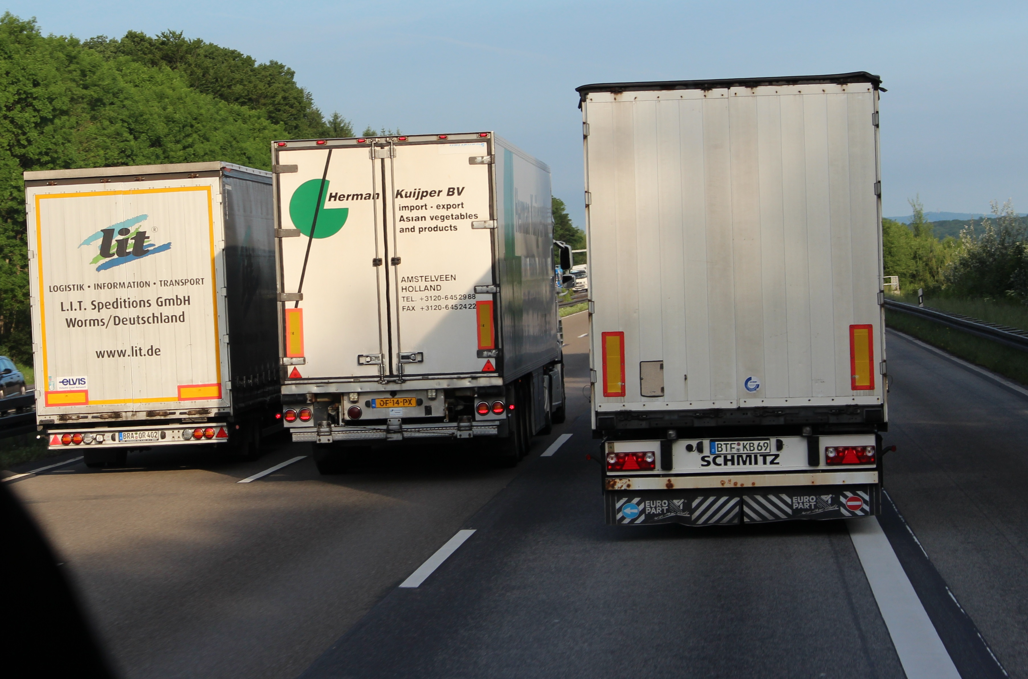 Three trucks overtaking simultainously on the Bundesautobahn 3.